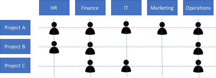 Chart